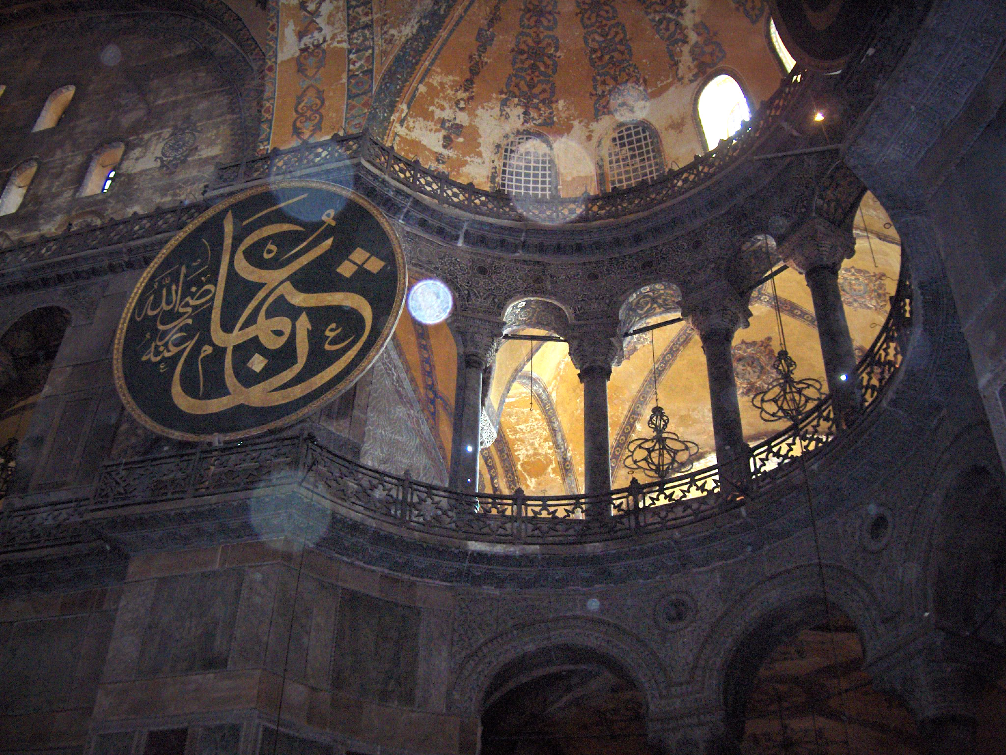 Hagia Sophia ; inside view; Istanbul, Turkey